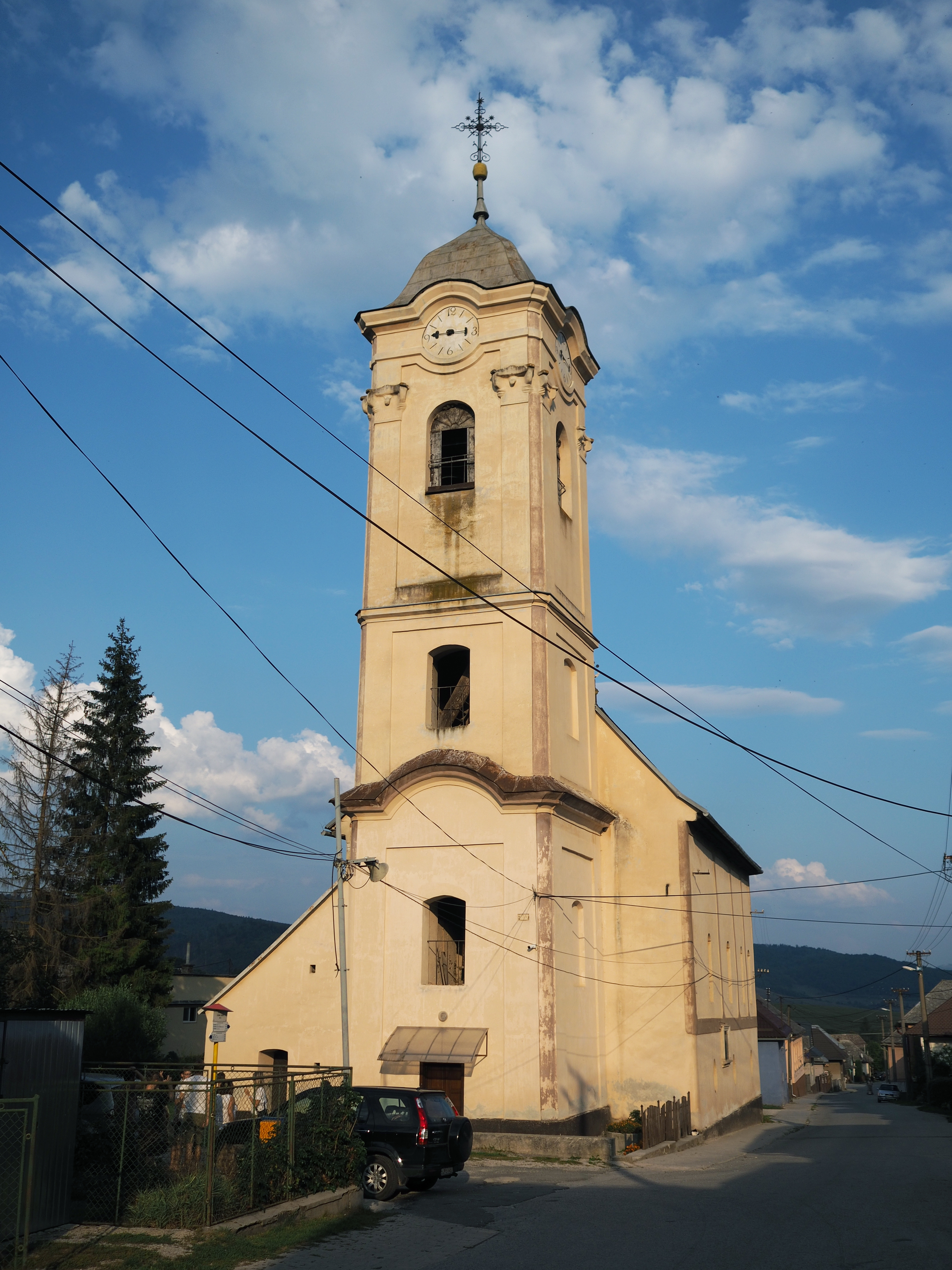 Lutheran Church in Čierna Lehota, Slovakia. Baroque-classicist building from 1773-1774.